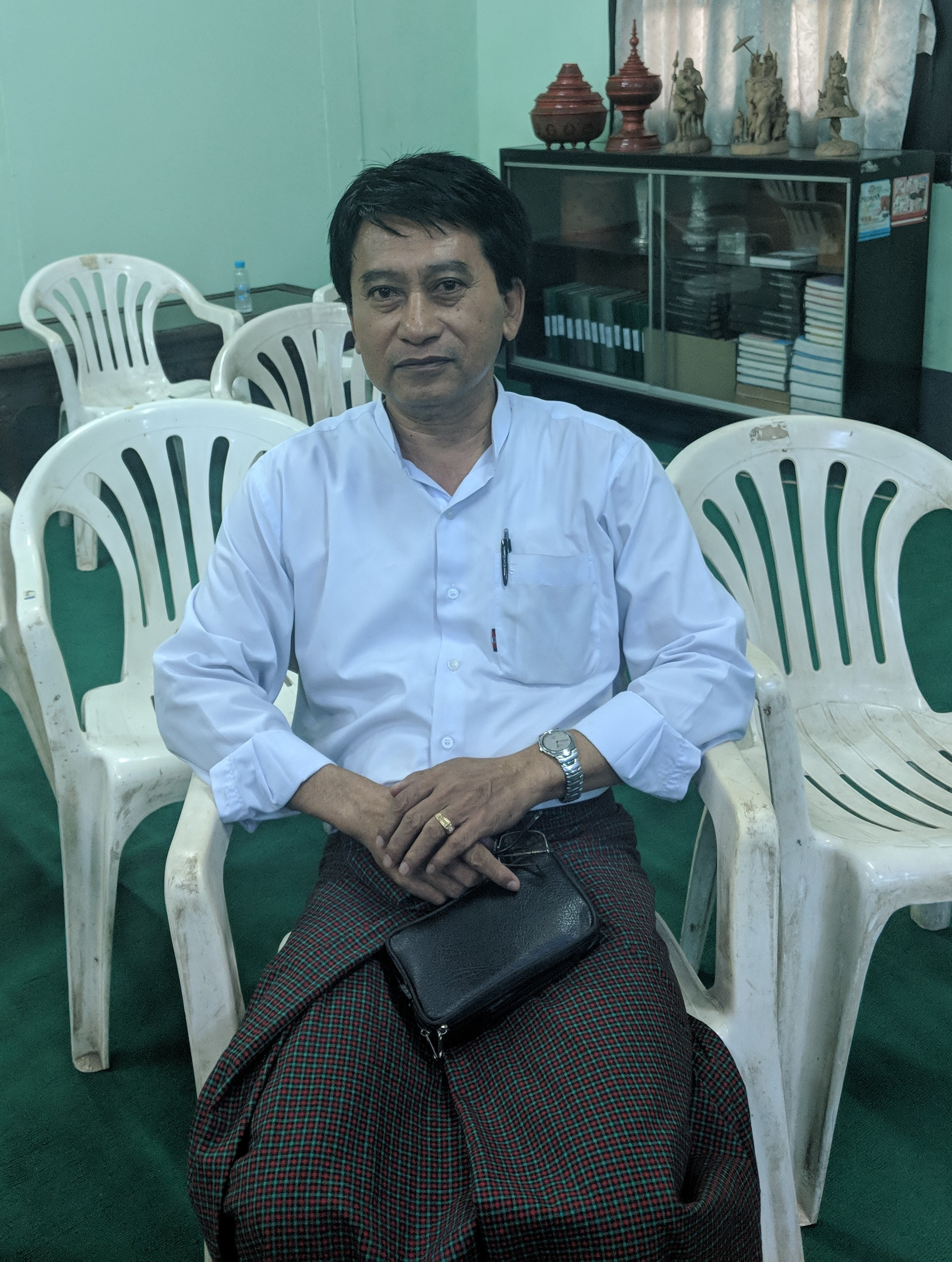 Myanmar Author Ko Yoe Kunt